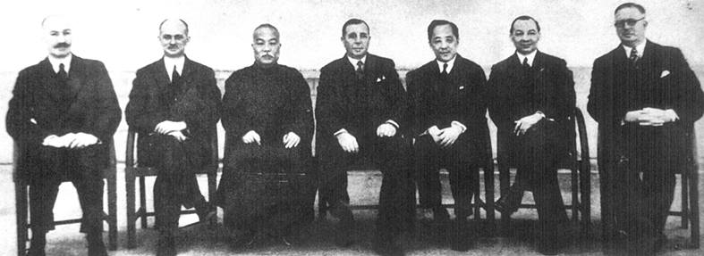 Sir Geoffry Northcote (1881 - 1948, seated in centre), British colonial Governor of Hong Kong (1937 - 1941), and Sir Robert Kotewall (second from right).